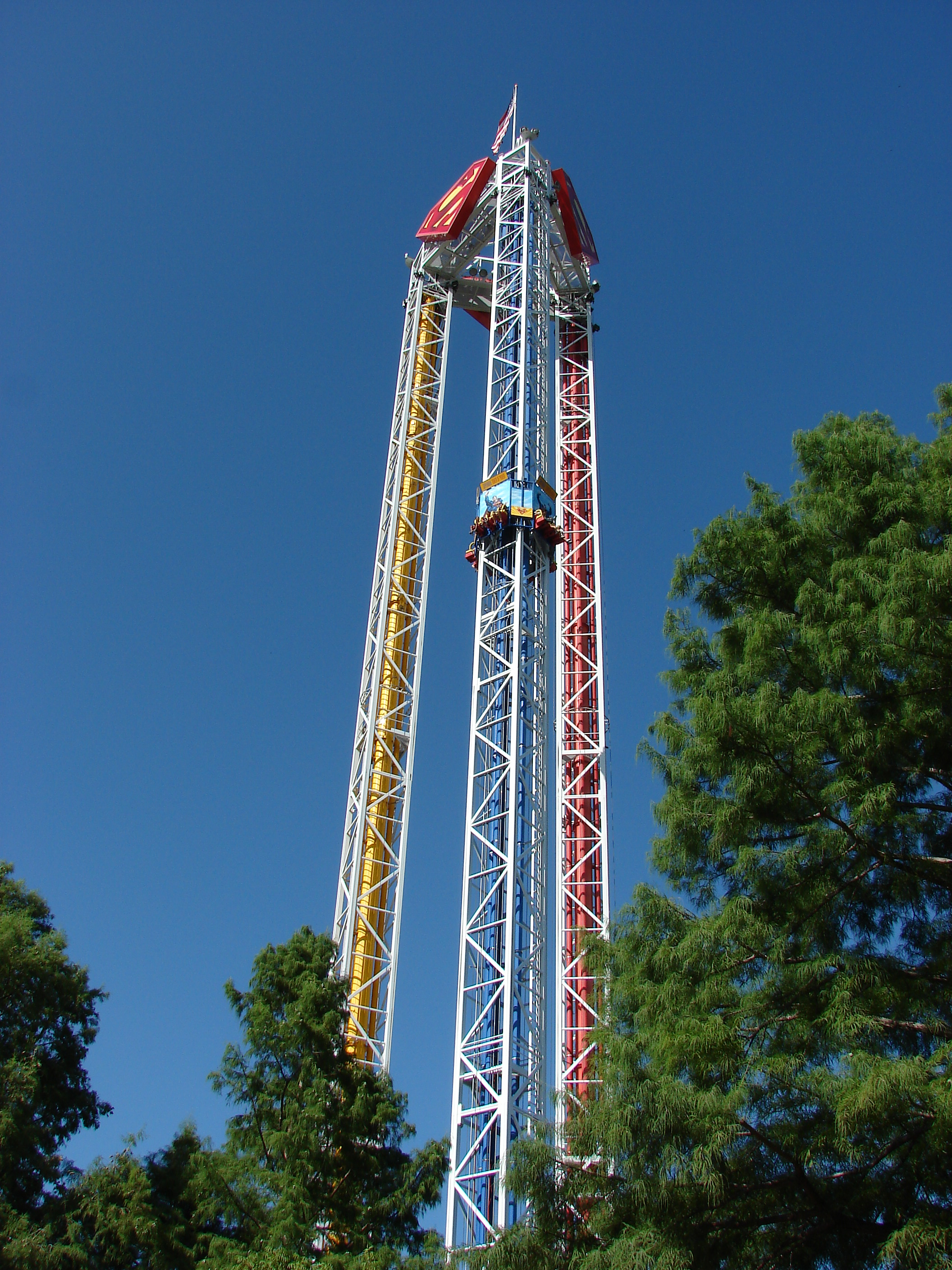 Superman Tower Of Power ride at Six Flags Over Texas.